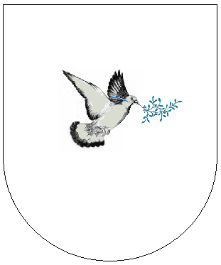 First Coat of Arms of Bahia state, Brazil of the XVII century, according to the publications Brasões das Villas e Cidades de Portugal, no date, end of the XVIII century, and Almeida Langhans, in "Armorial do Ultramar Português; 2 vols. 1966.